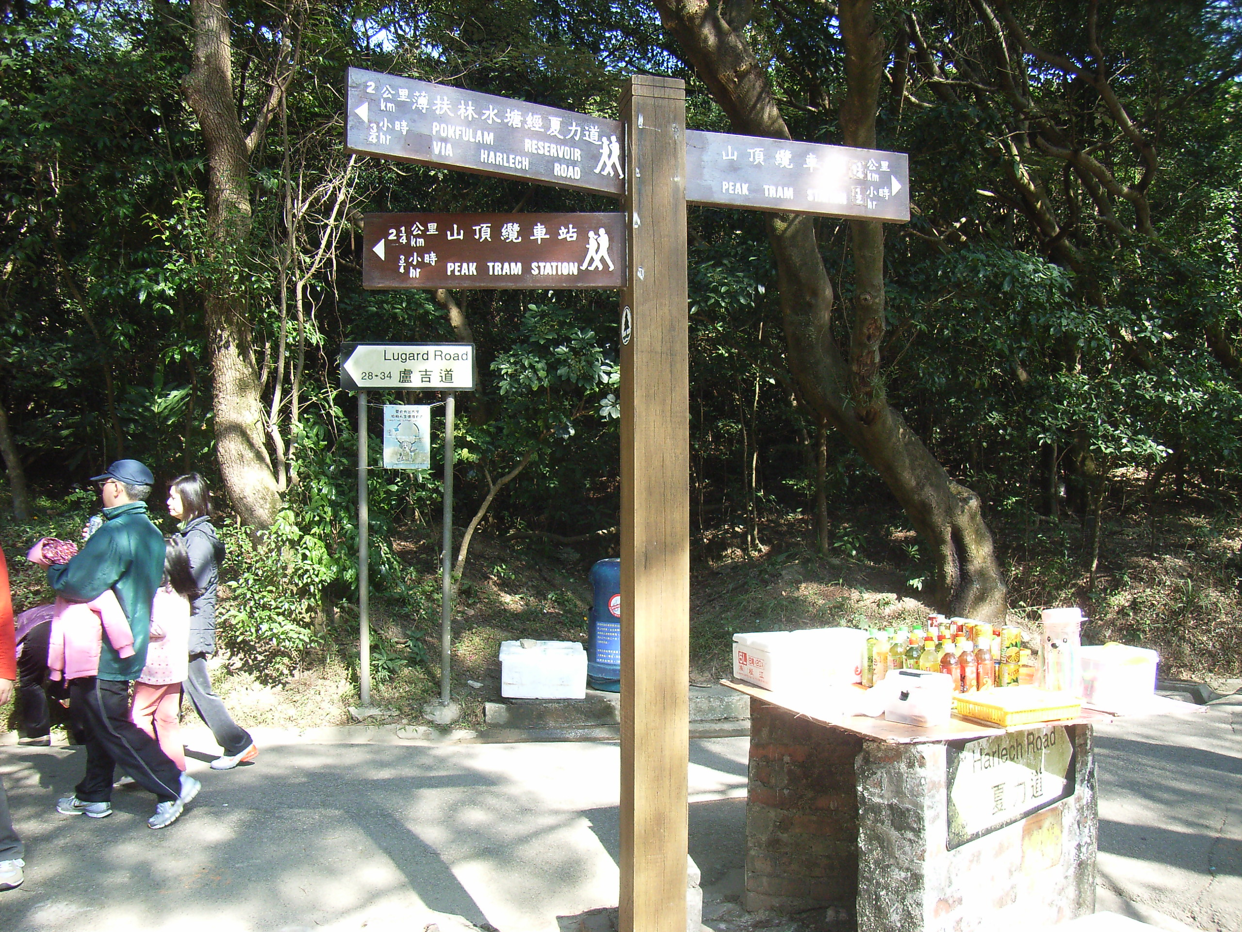 Lugard Road (盧吉道) & Harleck Road (夏力道), Victoria Peak, Hong Kong Photographer and author is ParkerStarS.